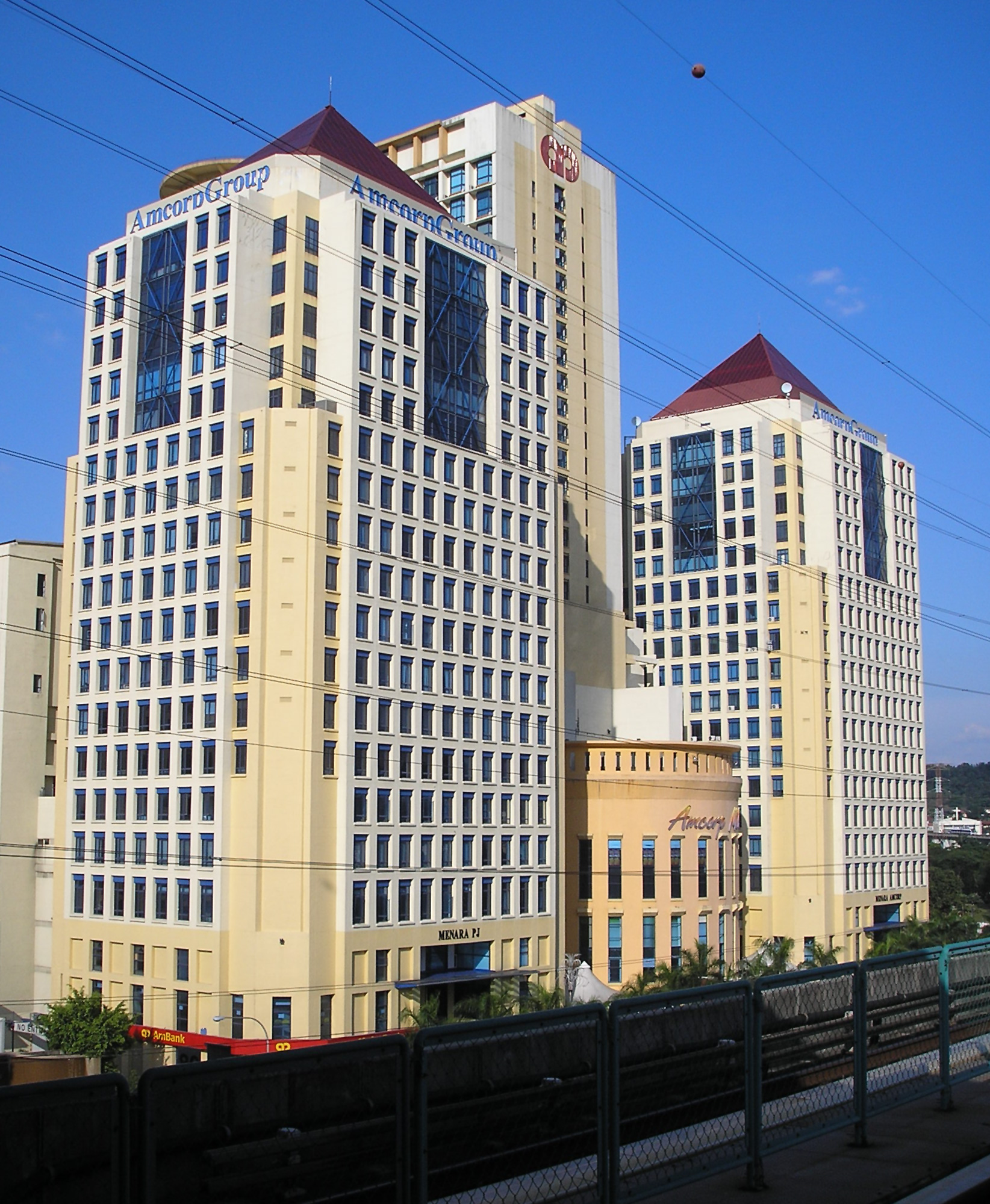 The Amcorp Mall & Business Centre in Petaling Jaya, Selangor, Malaysia, as seen from the Taman Jaya station (Kelana Jaya Line). The complex consists of three structures: The Amcorp Mall at the lower base, and two adjoining towers (from left to right): PJ Tower, Menara Melawangi (Melawangi Tower) and Amcorp Tower. Melawangi Tower is a commercial-cum-serviced apartment block, while PJ Tower and Amcorp Tower are office blocks.